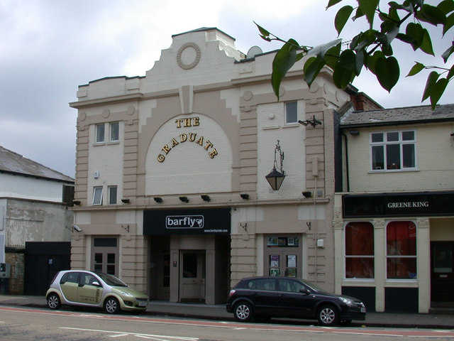 The Graduate (aka Barfly), Chesterton Road The former Tivoli cinema on Mitcham's Corner, it was converted to a pub in 1995. It was originally known as the Fresher and Firkin.